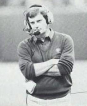 Frank Beamer during the 1987 football season at Virginia Tech.